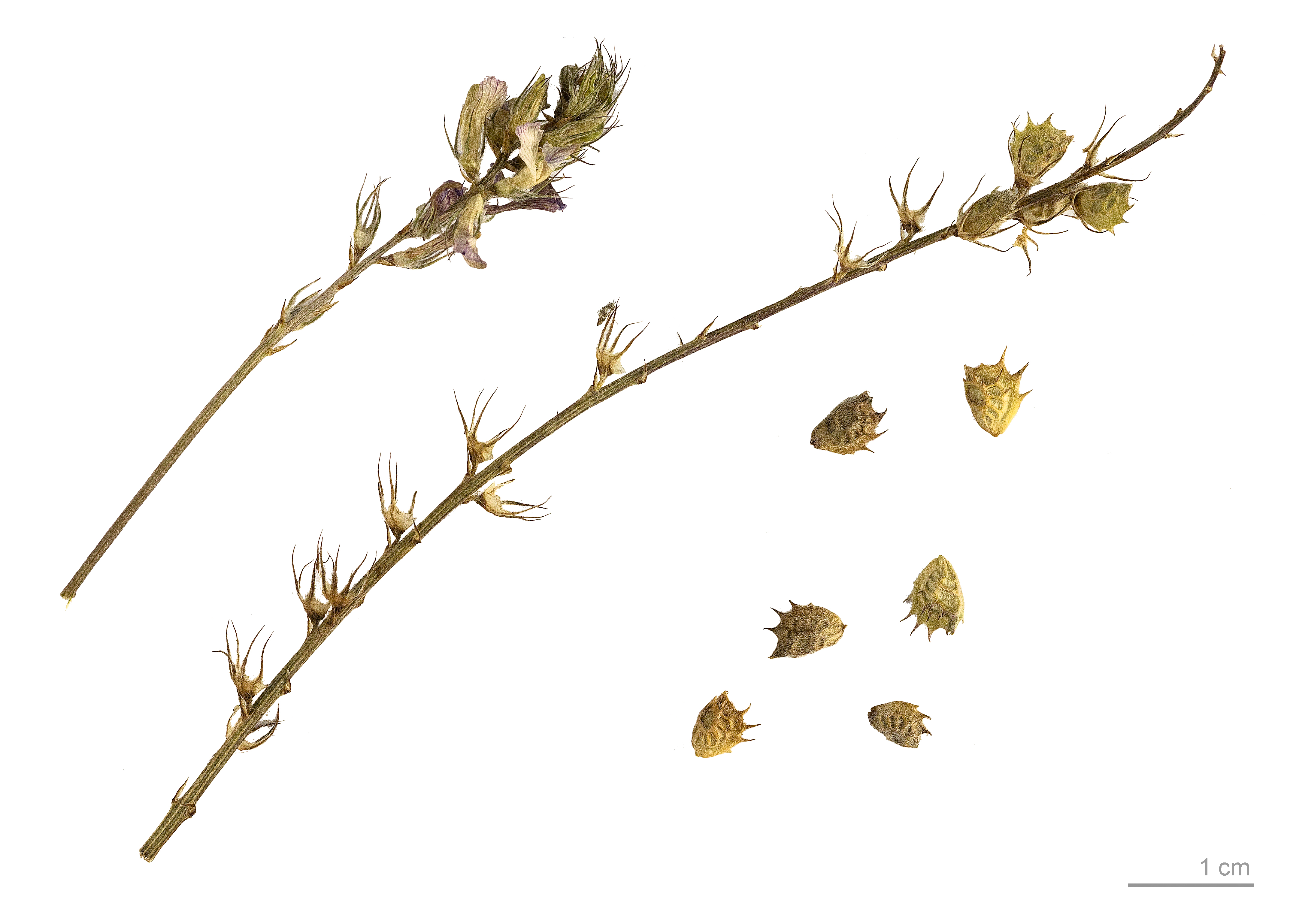 Onobrychis argentea , fruits and seeds